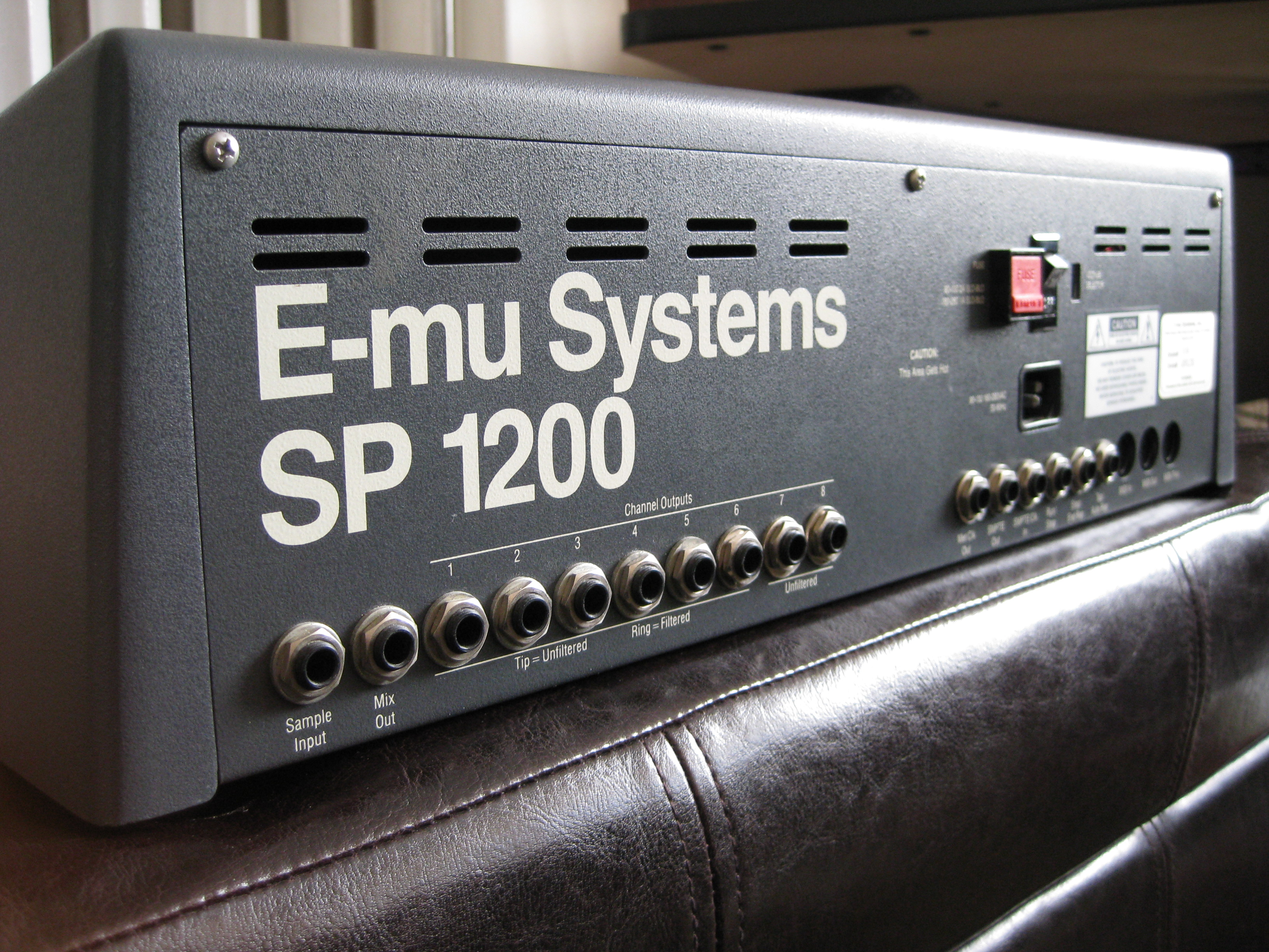 E-mu SP-1200